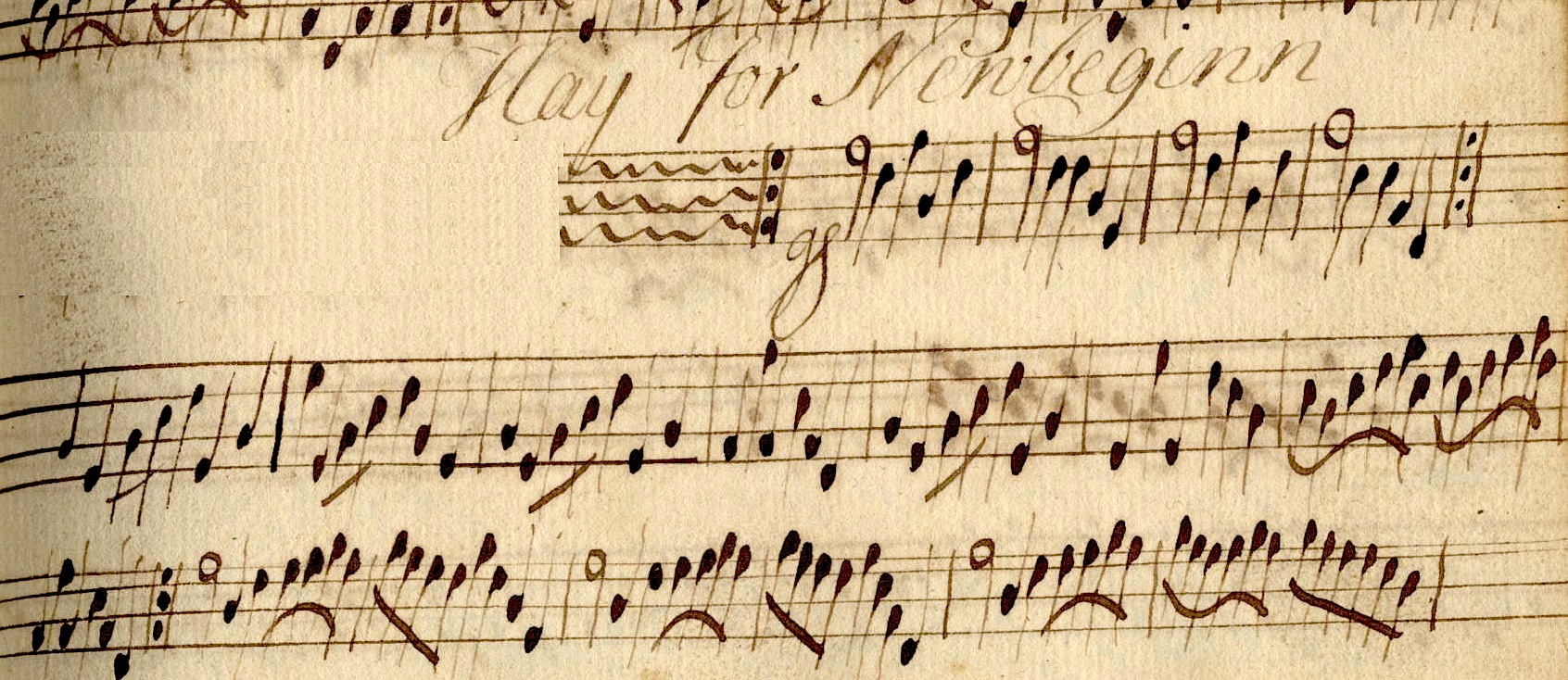 Hay-for-Newbiggen by William Dixon - Pipe music from the 1730s